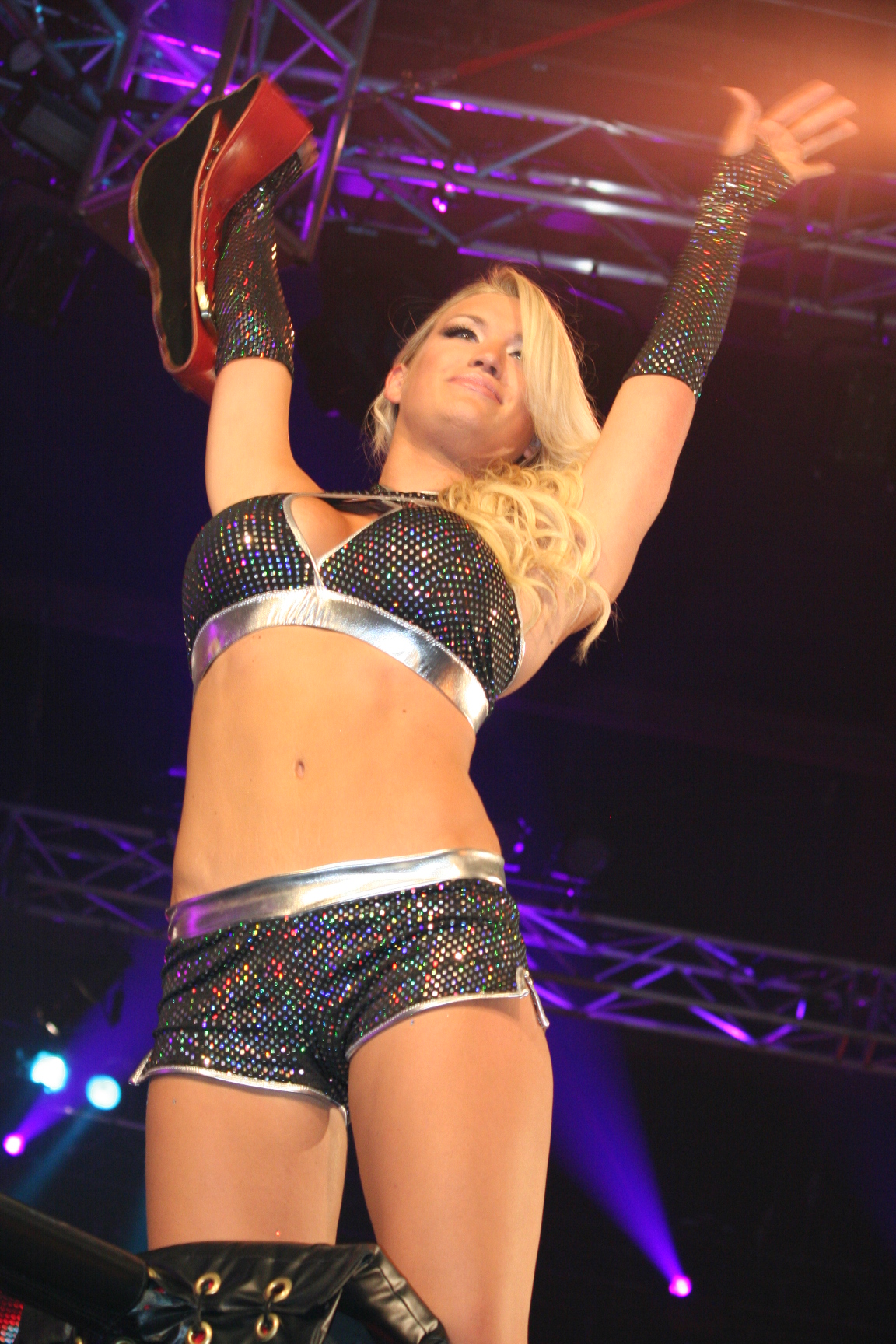 Professional wrestler Lacey Von Erich with a TNA Knockout Tag Team Championship belt at a TNA Impact! taping